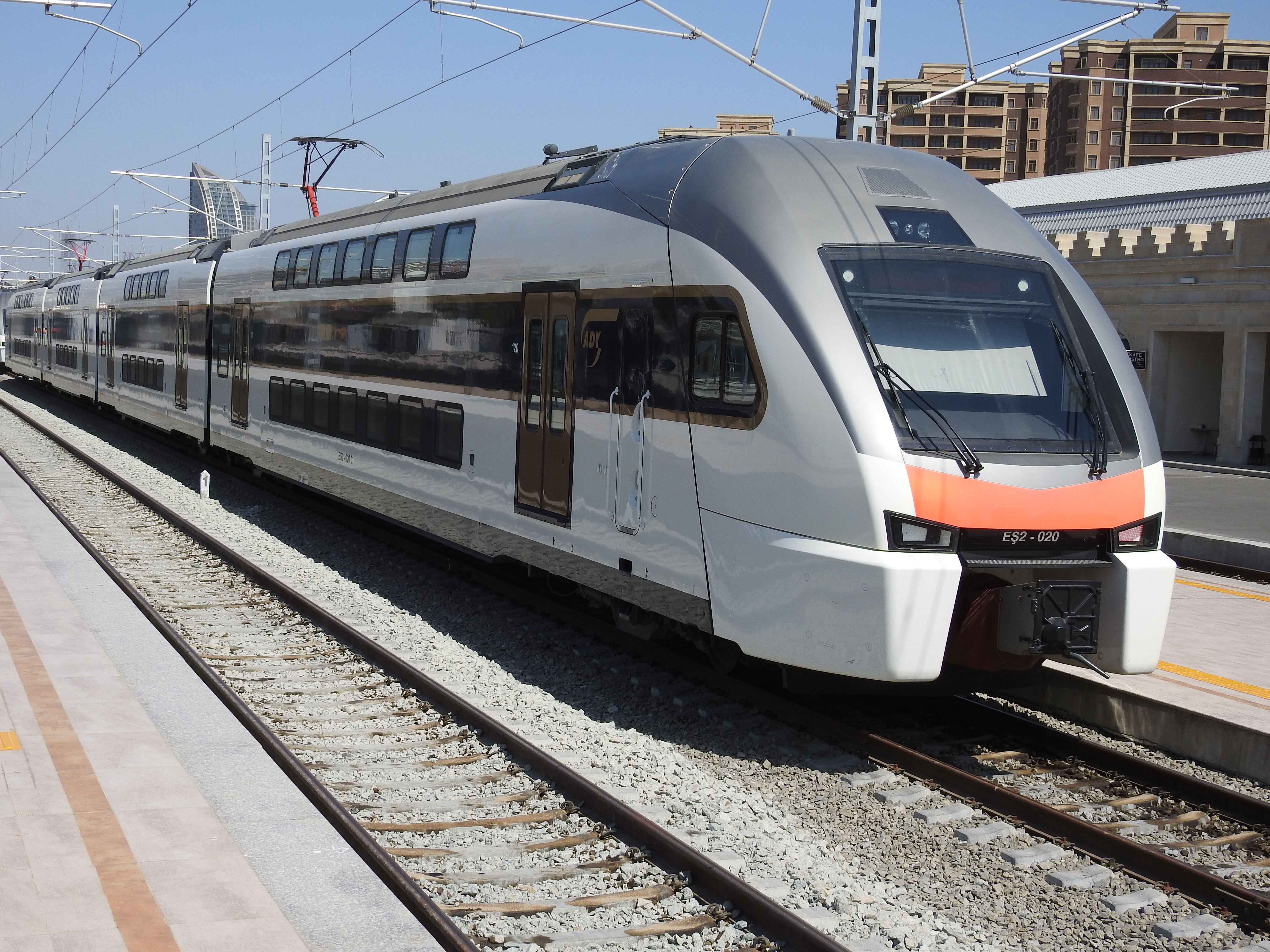 Stadler KISS ES2-020 for Azerbaijan Railways at station in Baku.